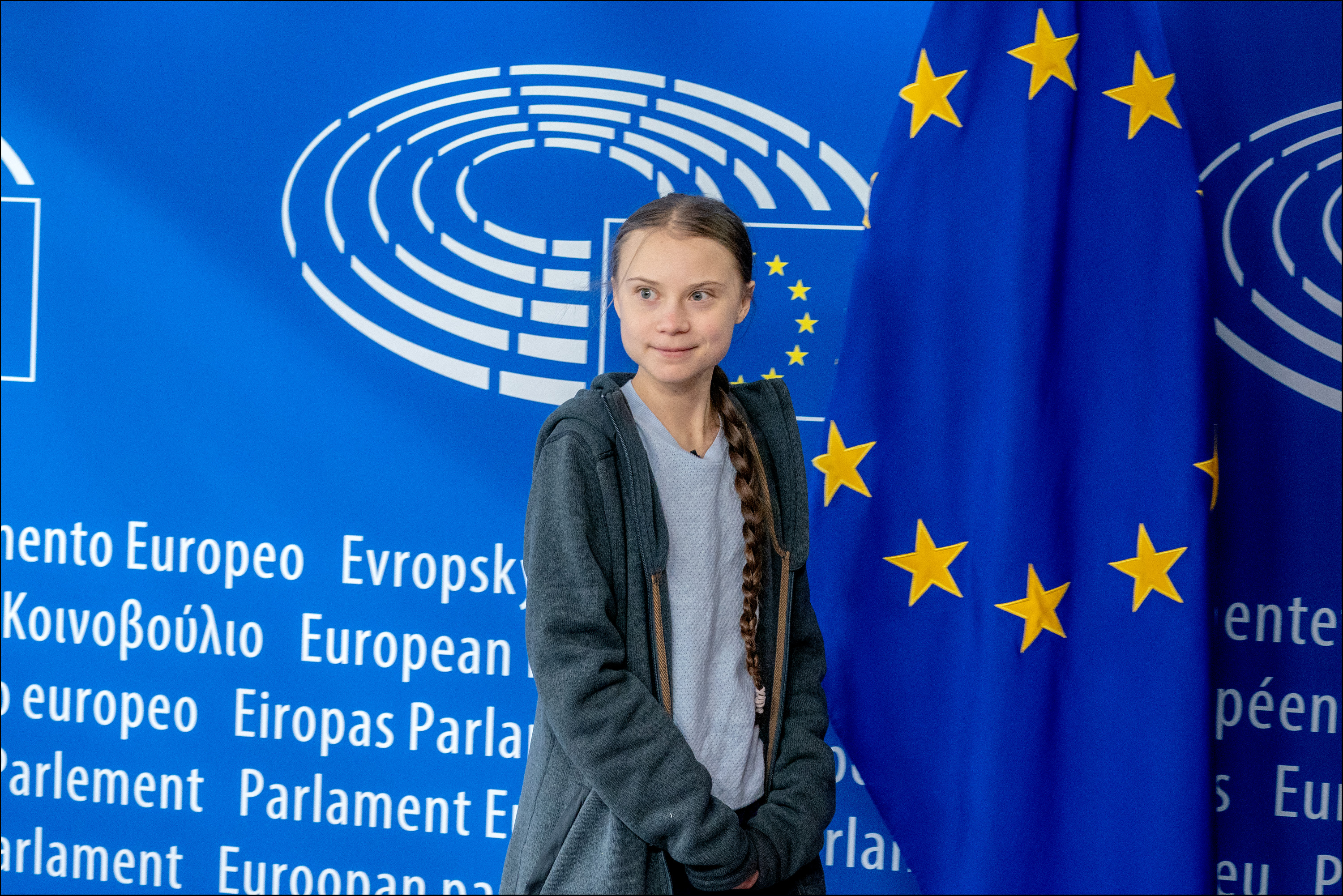 Climate activist Greta Thunberg discussed EU plans to tackle the climate emergency with Parliament’s environment committee on Wednesday 4 March. The climate activist was at the Parliament to discuss the Climate Law, a proposal seeking to commit the EU to carbon neutrality by 2050. Addressing the committee, Thunberg criticised the proposal as insufficient: “The EU must lead the way. You have the moral obligation to do so and you have a unique economical and political opportunity to become a real climate leader. You, yourselves, declared that we are in a climate and environment emergency. You said this was an existential threat. Now you must prove that you mean it.” It is vital to follow “ a science-based pathway”. “Anything else is surrender,” she said. “This climate law is surrender because nature doesn’t bargain and you cannot make deals with physics.” Introducing her, environment committee chair Pascal Canfin said: “Everyone has their role to play in this. I am deeply convinced that what we need is the energy of our young people. No society is transformed, no society can respond to the kind of challenges we face on climate if we do not take on board the energy coming from our young people. And you embody that.” Read more: This photo is free to use under Creative Commons license CC-BY-4.0 and must be credited: "CC-BY-4.0: © European Union 2020 – Source: EP". No model release form if applicable. For bigger HR files please contact: webcom-flickr(AT)